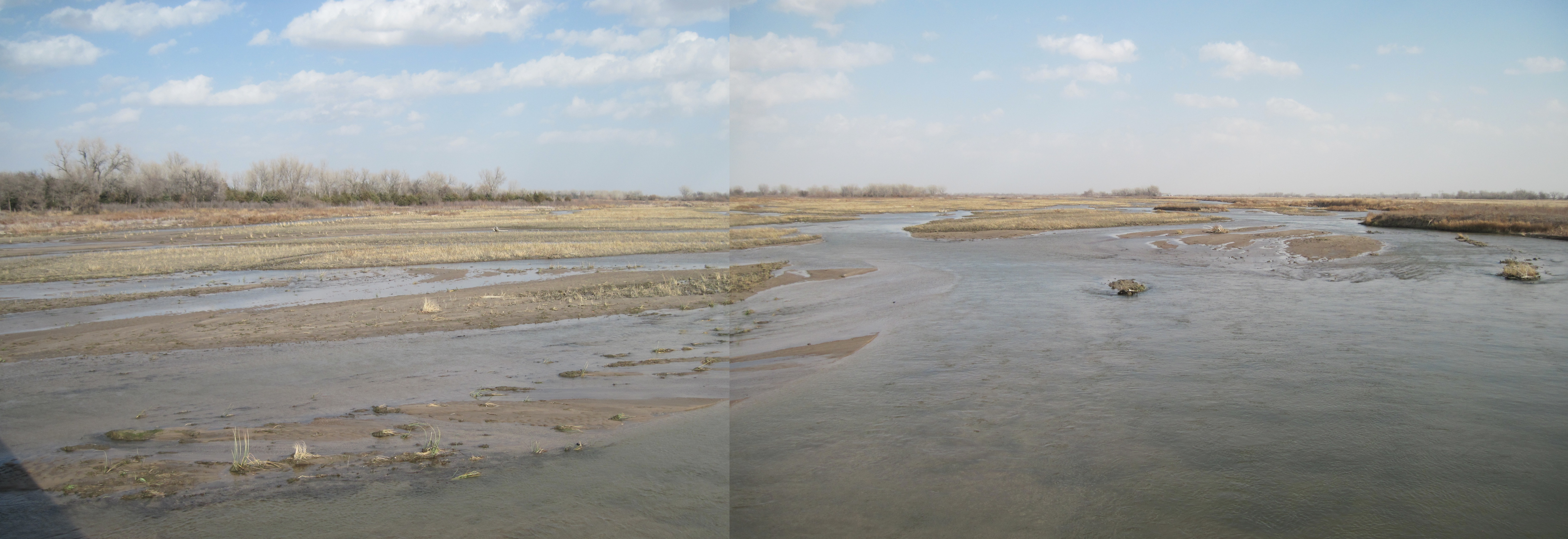 Panorama of the main stem of the Platte River near Ft. Kearny Historical Site, Central Nebraska.